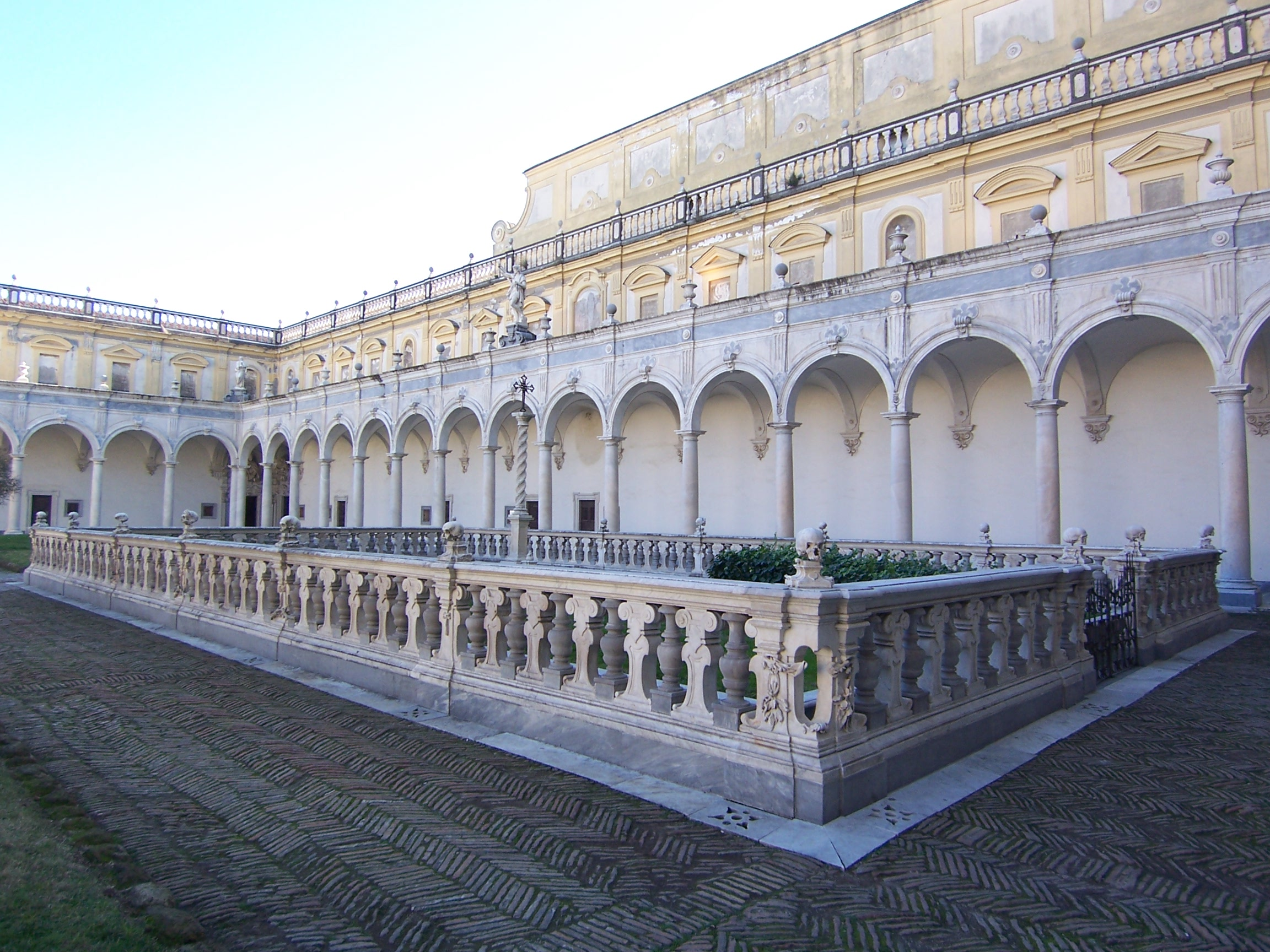 Chiostro di San Martino, Naples